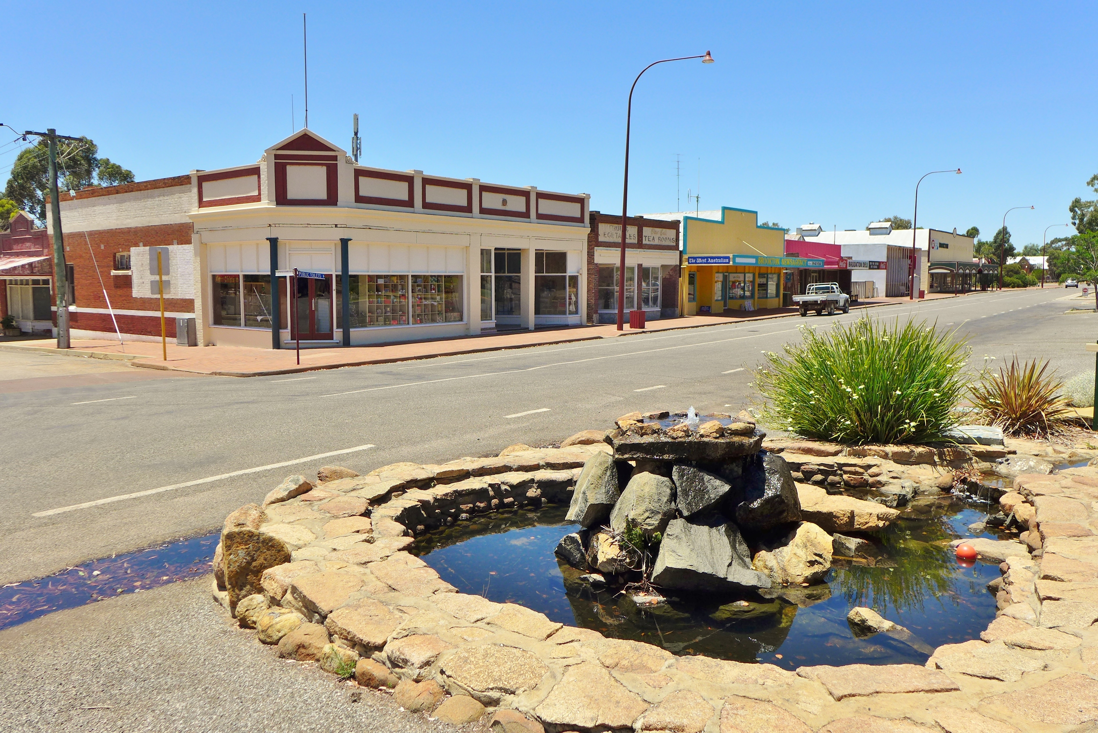 A row of shops in Robinson Road, Brookton, Western Australia.